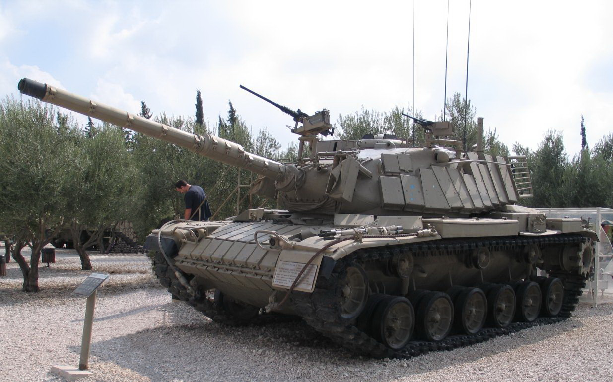 Description: Magach 6 - an Israeli upgraded M60A1 Patton with Blazer ERA in Yad la-Shiryon Museum, Israel. 2005. Source: Photo by me, User:Bukvoed.